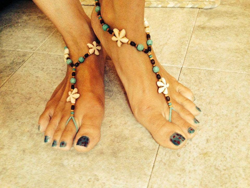 Foot jewelry set crafted with three howlite starfish surrounded by turquoise and wood beads.